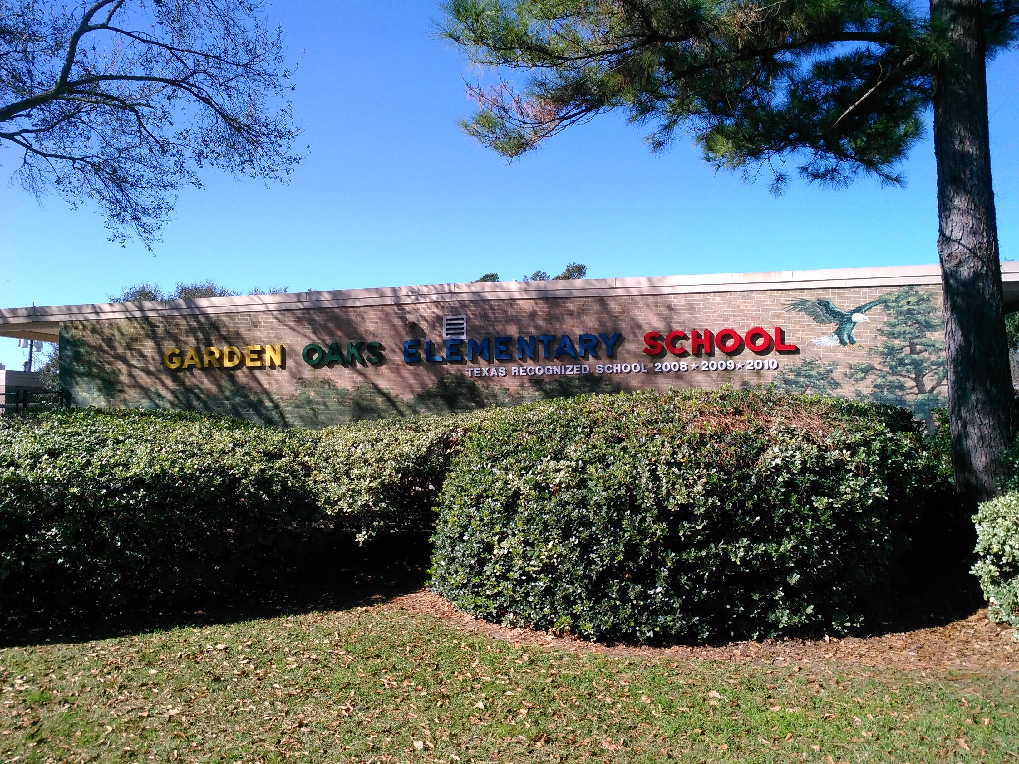 Garden Oaks Elementary School